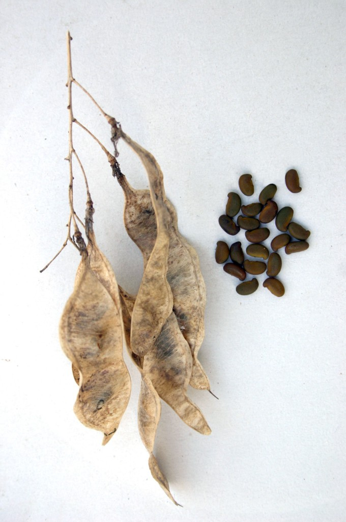 Seed pods and seeds of a Natal laburnum